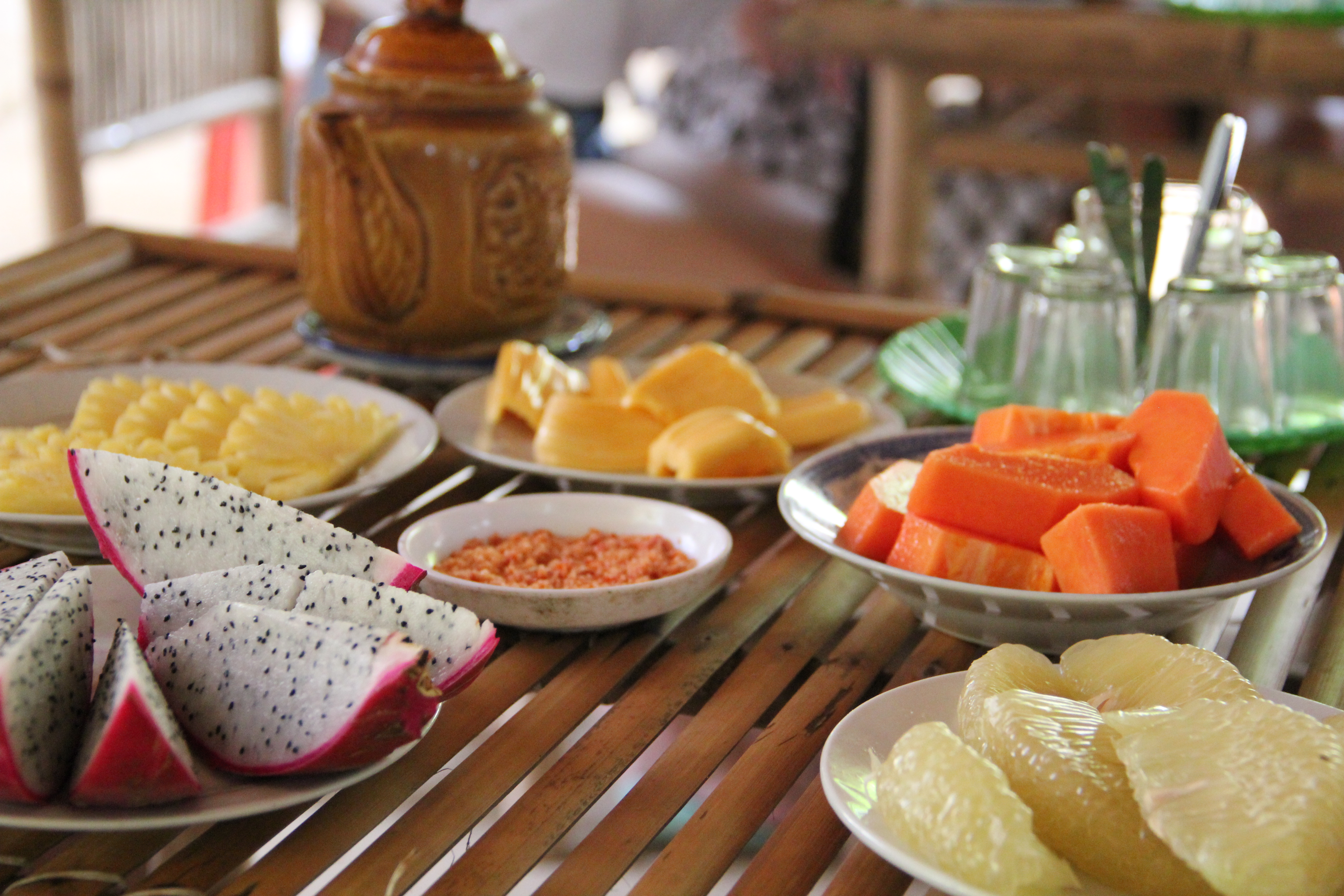 Local Vietnamese fruit - jackfruit, mango, papaya, pomelo, pineapple etc.